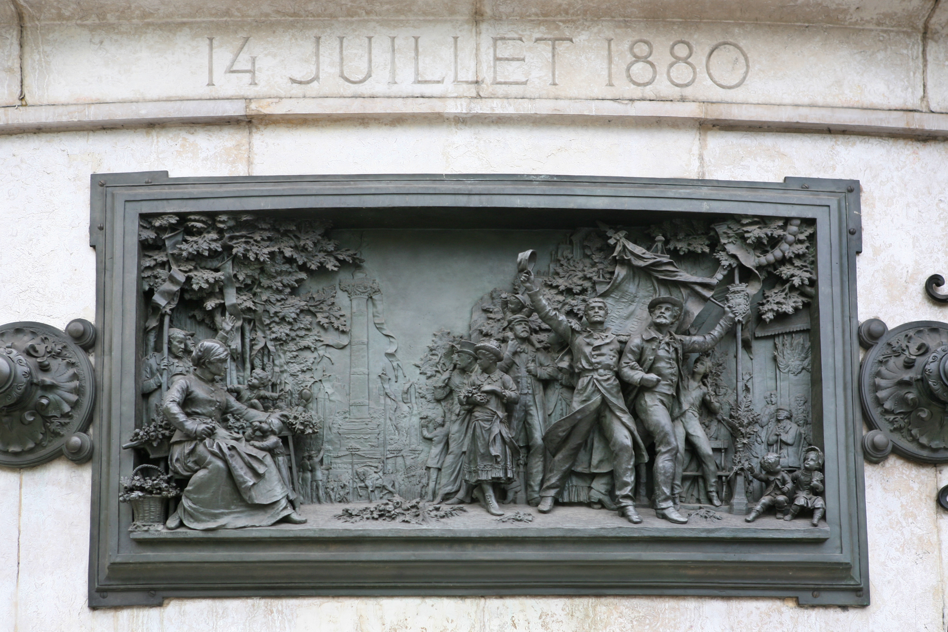 Bastille Day (1880-07-14), haut relief by Leopold Morice, Monument to the Republic, Paris, 1883